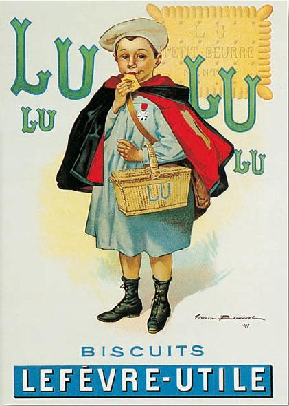 Poster Biscuits Lefèvre -Utile